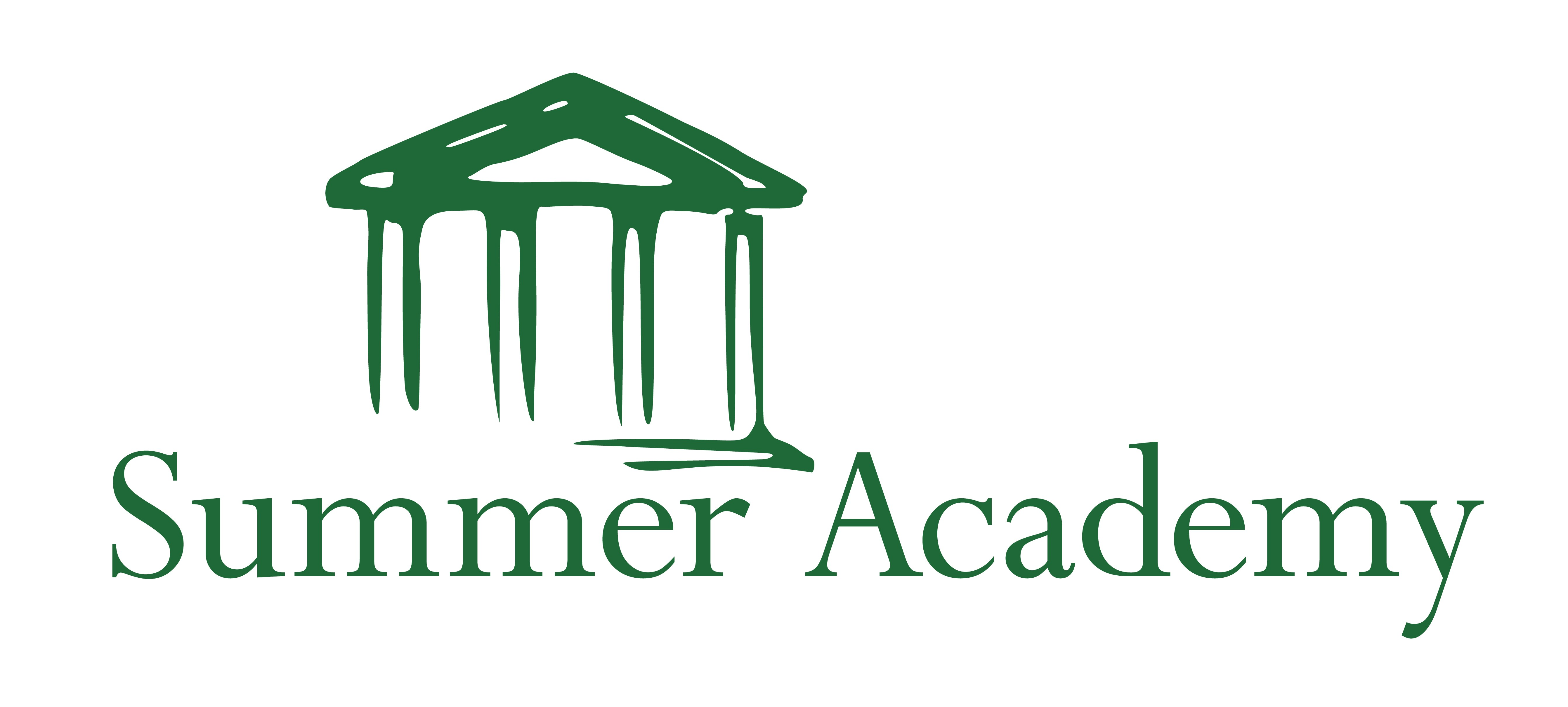 Summer Academy, ESTIEM